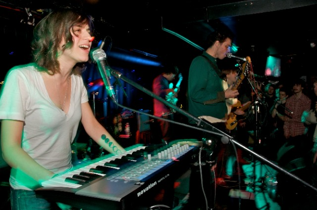 Dirty Projectors at the Komedia in Brighton, 2009